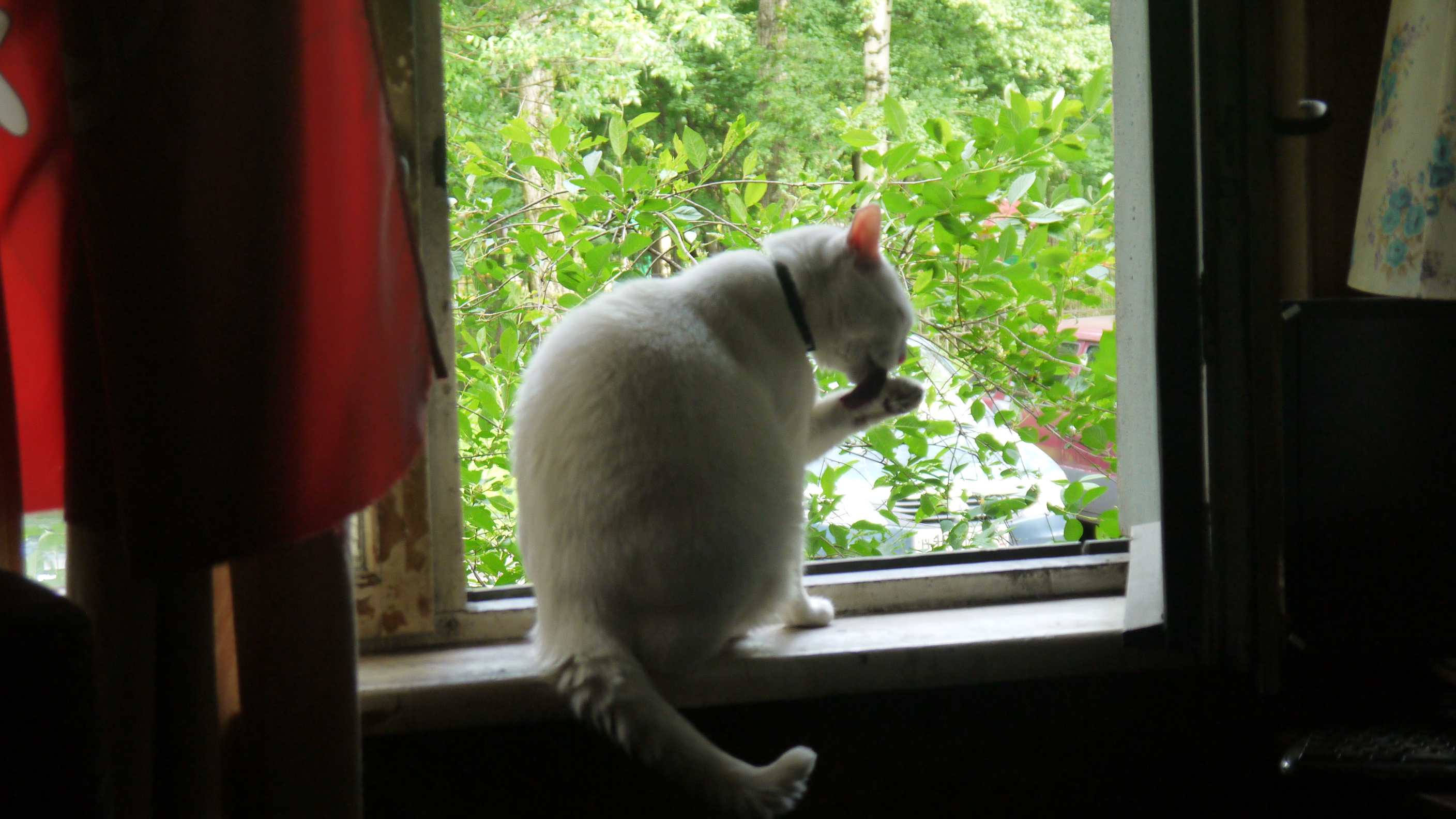 Kitten at the window Кыргызча: Терезедеги мышык